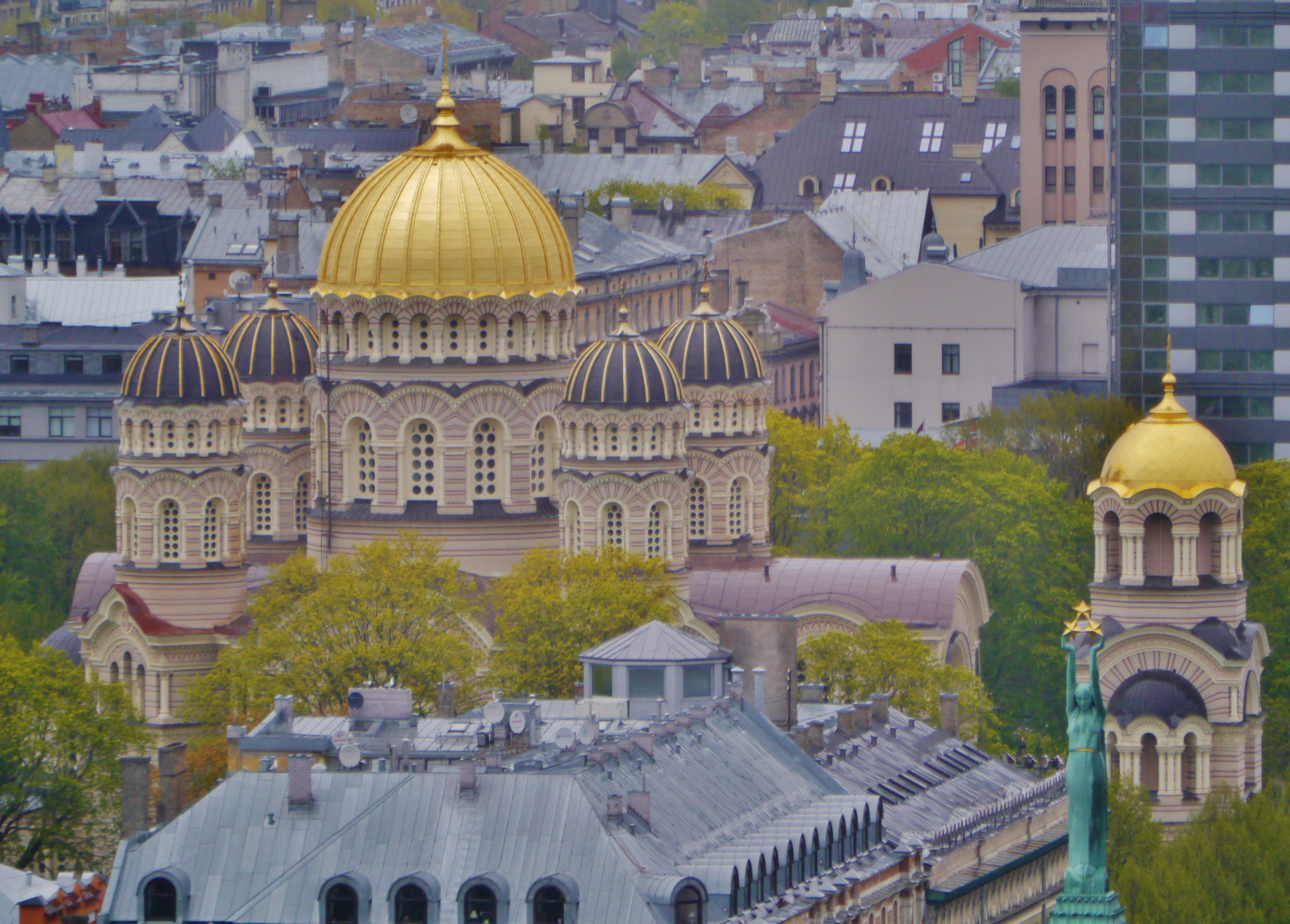 View from the Tower of St. Peter's Church to the Russian Orthodox Cathedral of the Nativity of Christ, in the Foreground the Freedom Monument, Riga, Latvia